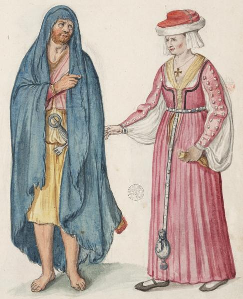 Dutch Water Color Painting ‘Irish man and Irish woman’